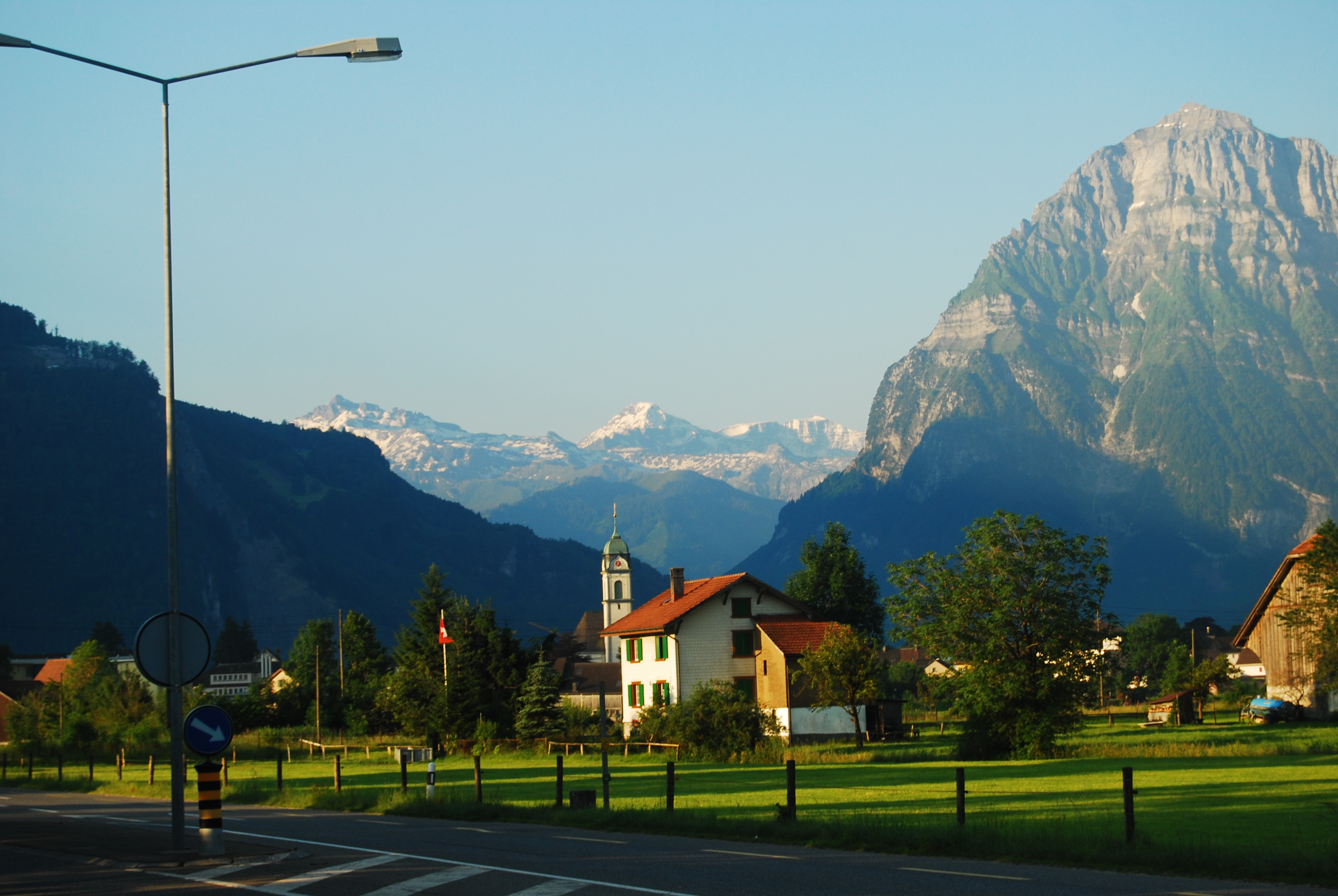 Näfels, canton of Glarus, SwitzerlandEsperanto: Näfels, Kantono Glaruso, Svislando